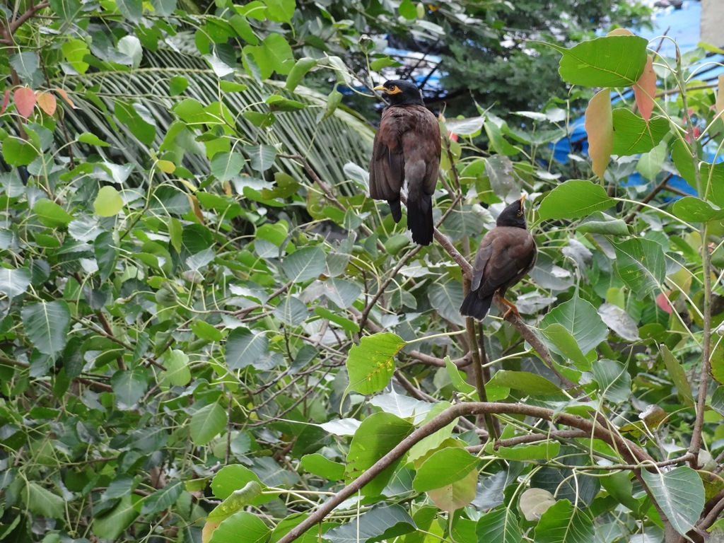 Myna outside my window